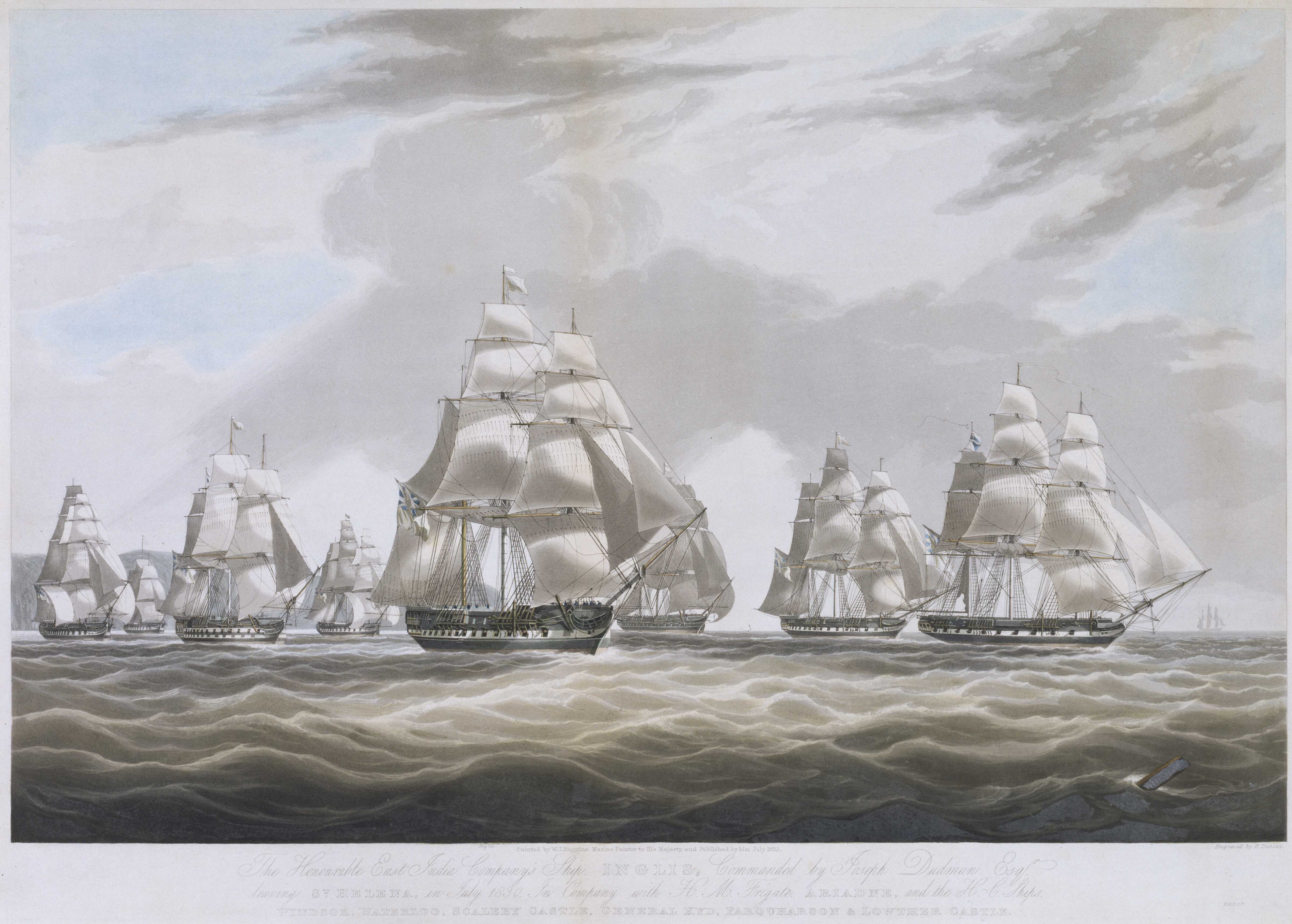 The Honourable East India Company's Ship Inglis (1812)... leaving St Helena, in July 1830 In Company with H.M. Frigate Ariadne (1816) and the H.C.Ships Windsor (1818), Waterloo (1816), Scaleby Castle (1807), General Kidd, Farquharson (1820) & Lowther Castle Hand-coloured. The 'Ariadne' shown here will be the the 20-gun vessel of 1816. Inscription: The Honourable East India Company's Ship Inglis... leaving St Helena, in July 1830 In Company with H.M. Frigate Ariadne and the H.C.Ships Windsor, Waterloo, Scaleby Castle, General Kidd, Farquharson & Lowther Castle Sheet: 430 x 592 mm; Mount: 607 mm x 836 mm Box Title: Sailing Ships 1812-1825.